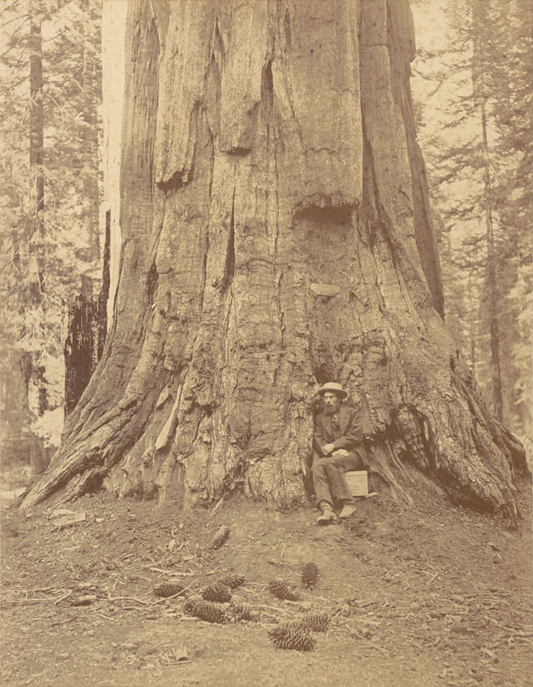 U.S. Grant, Mariposa Grove, portrait of Eadweard Muybridge seated at base of tree, 1872